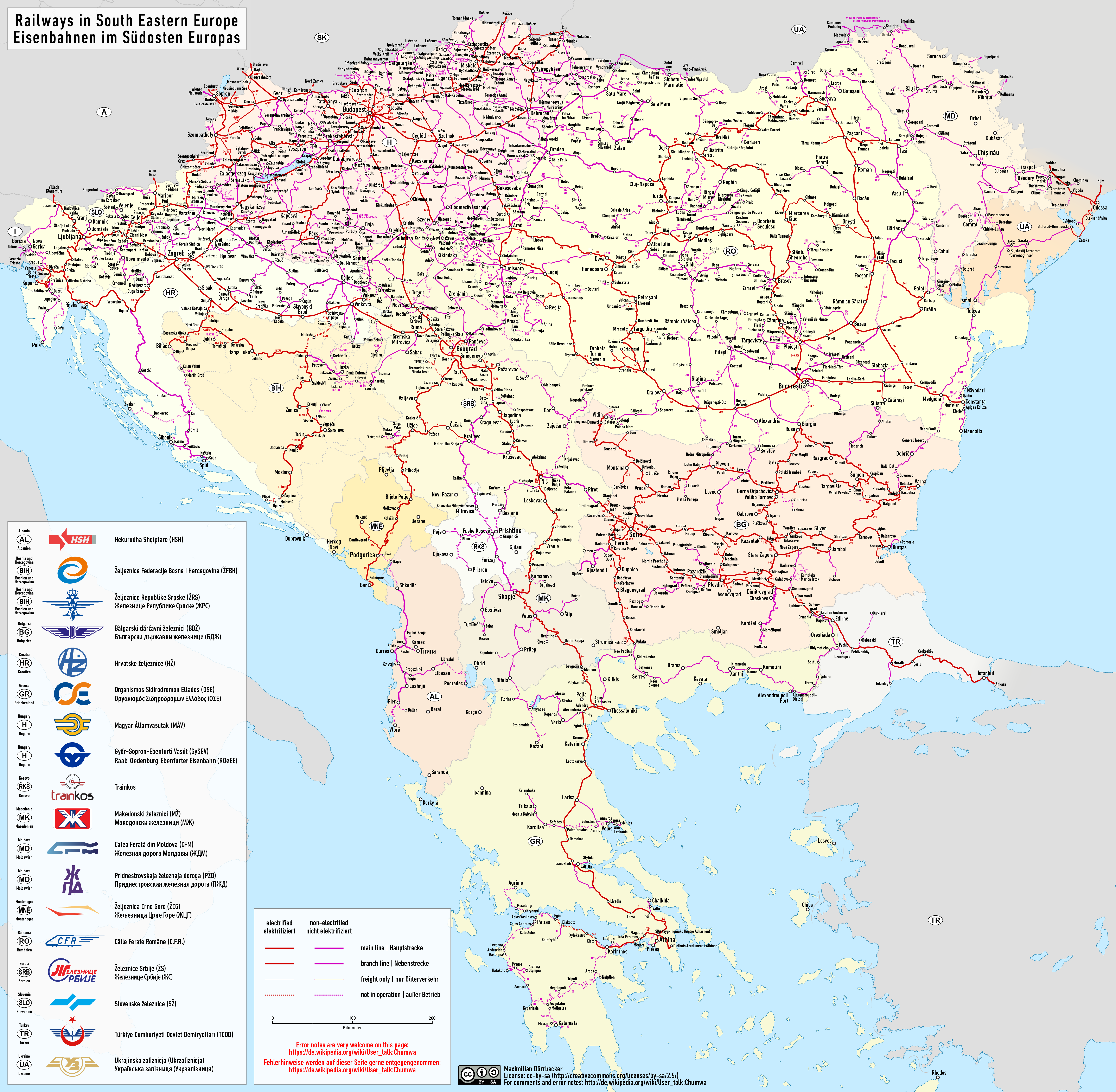 Railway map of South East Europe